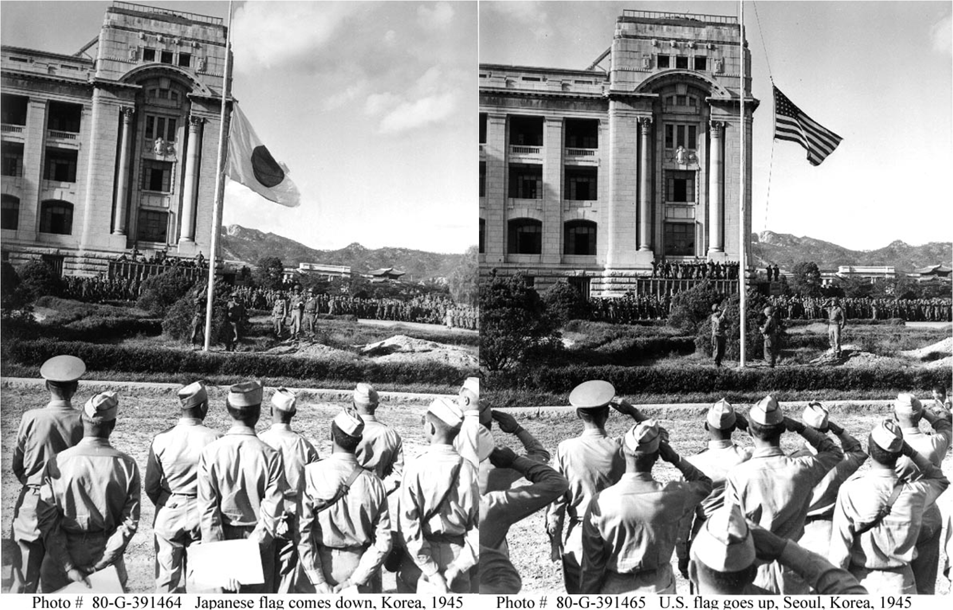 Surrender of Japanese Forces in Southern Korea, September 1945 Photo #: 80-G-391464 Photo #: 80-G-391465